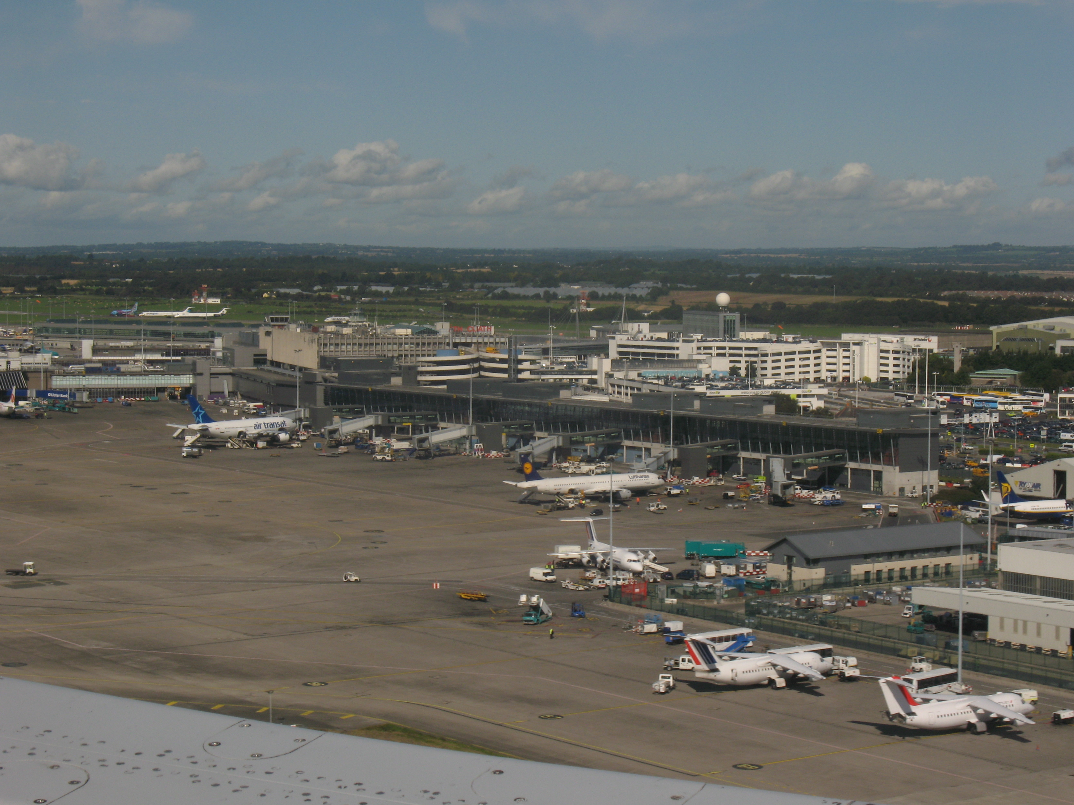 Overview of Dublin Airport